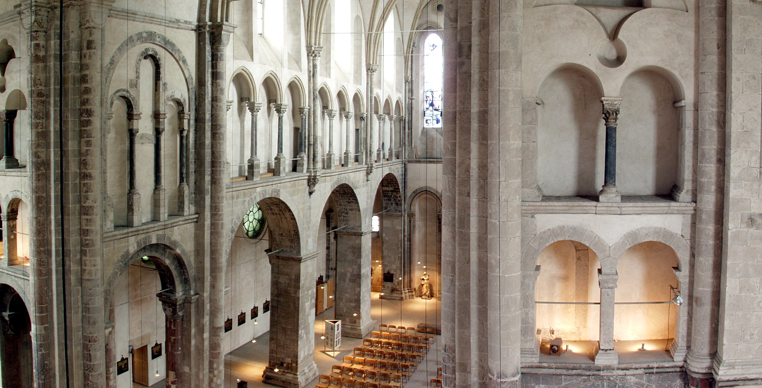 View through the main nave to the western porch Groß St. Martin, Cologne